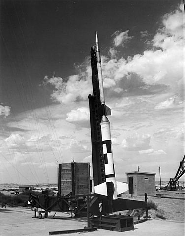 Nike Deacon at White Sands (Prototype for Nike Cajun)